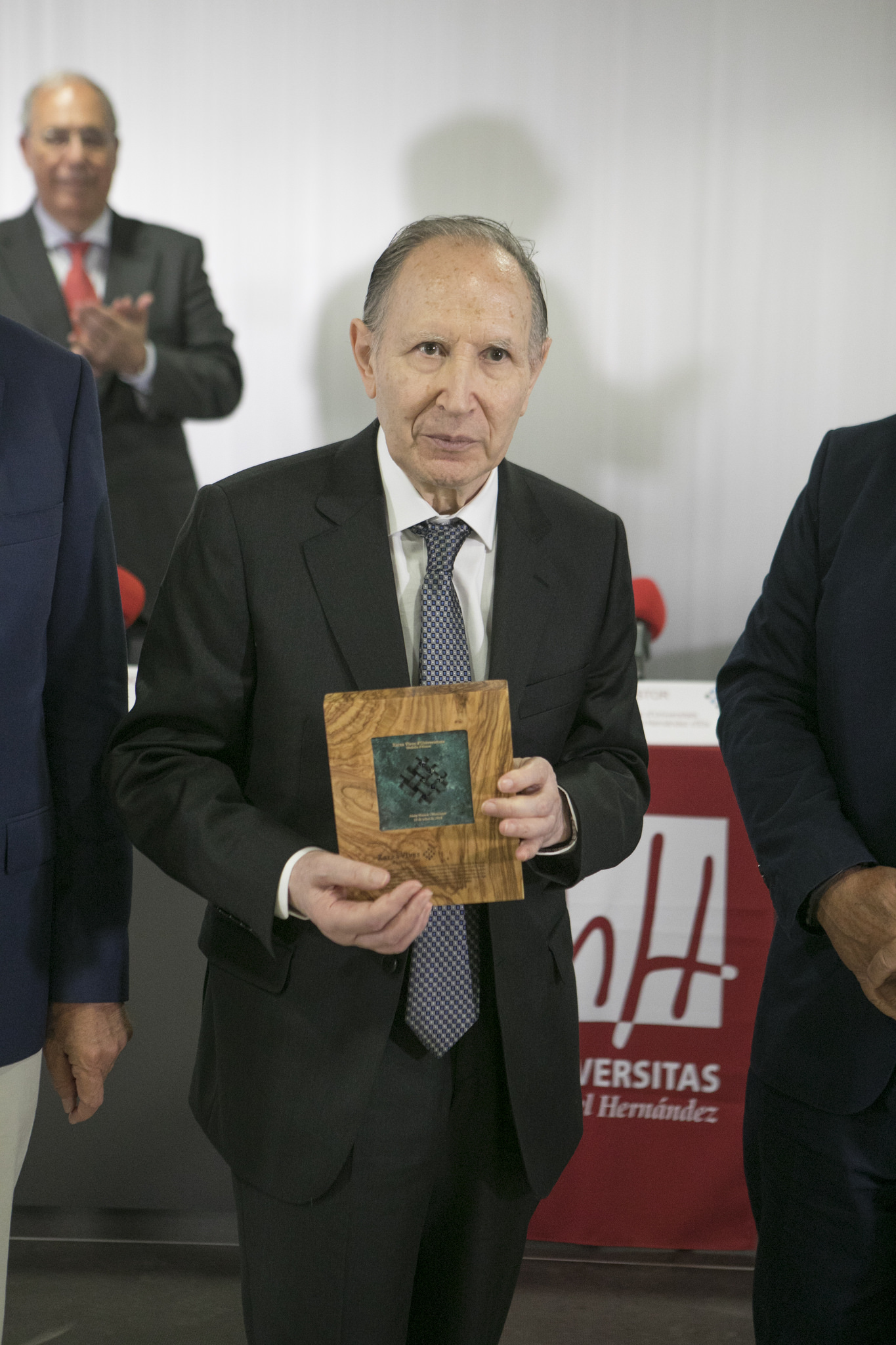 Josep Massot, awarded with the Vives University Network Medal of Honor